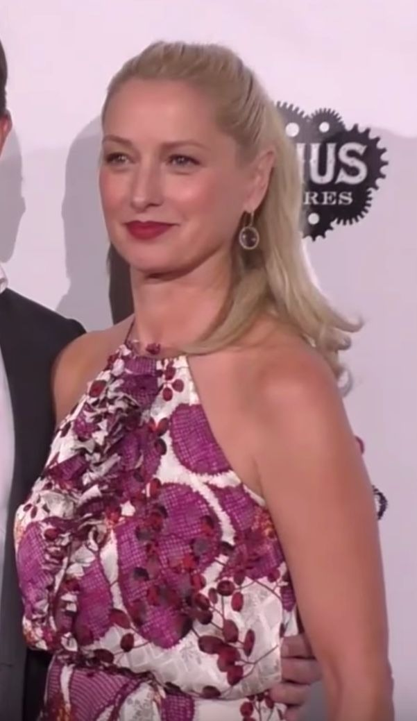 Katherine LaNasa at the Premiere Of Love Is All You Need at the ArcLight Theatre in Hollywood